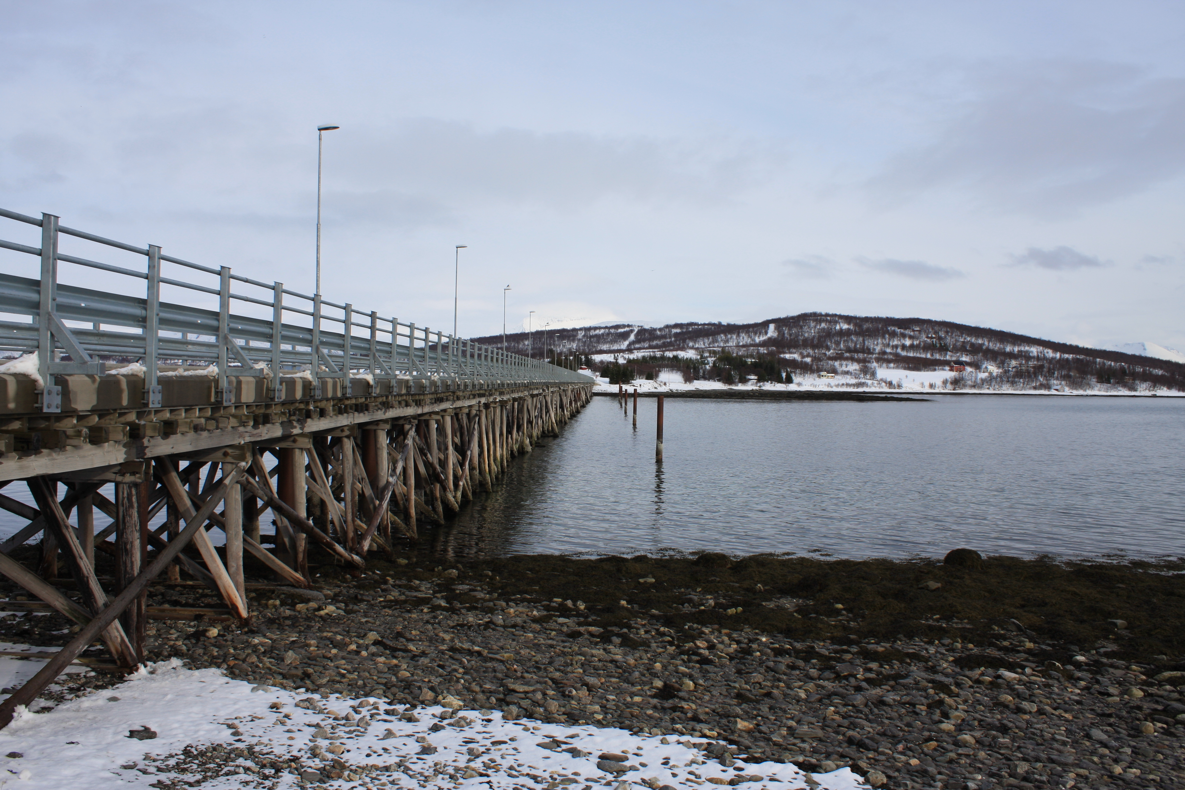 Håkøybrua (bridge) in Tromsø, Norway. The photo is shot from Kvaløya (island) towards Håkøya (island).